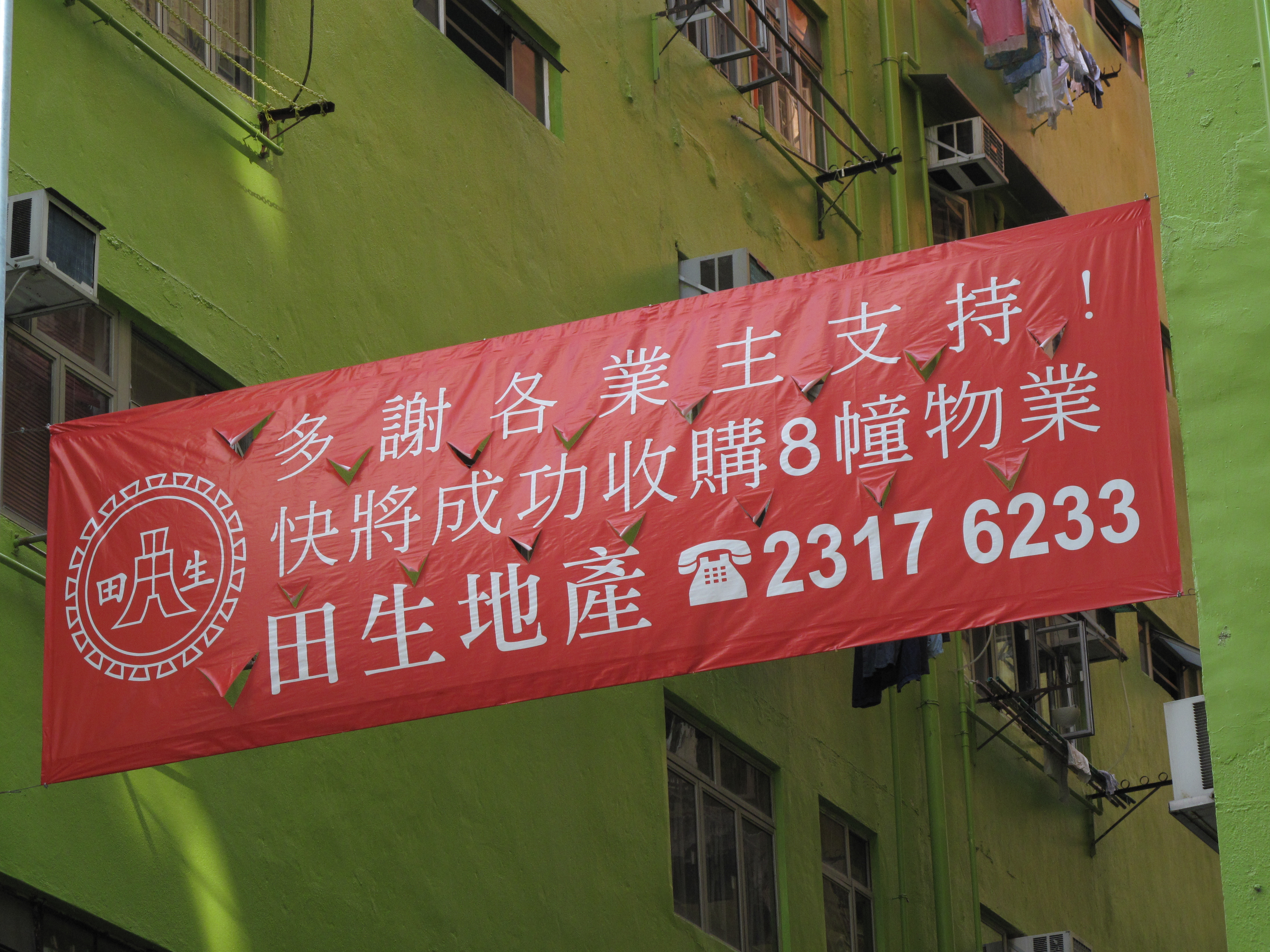 Photo of Richfield Reality banner at Western Court